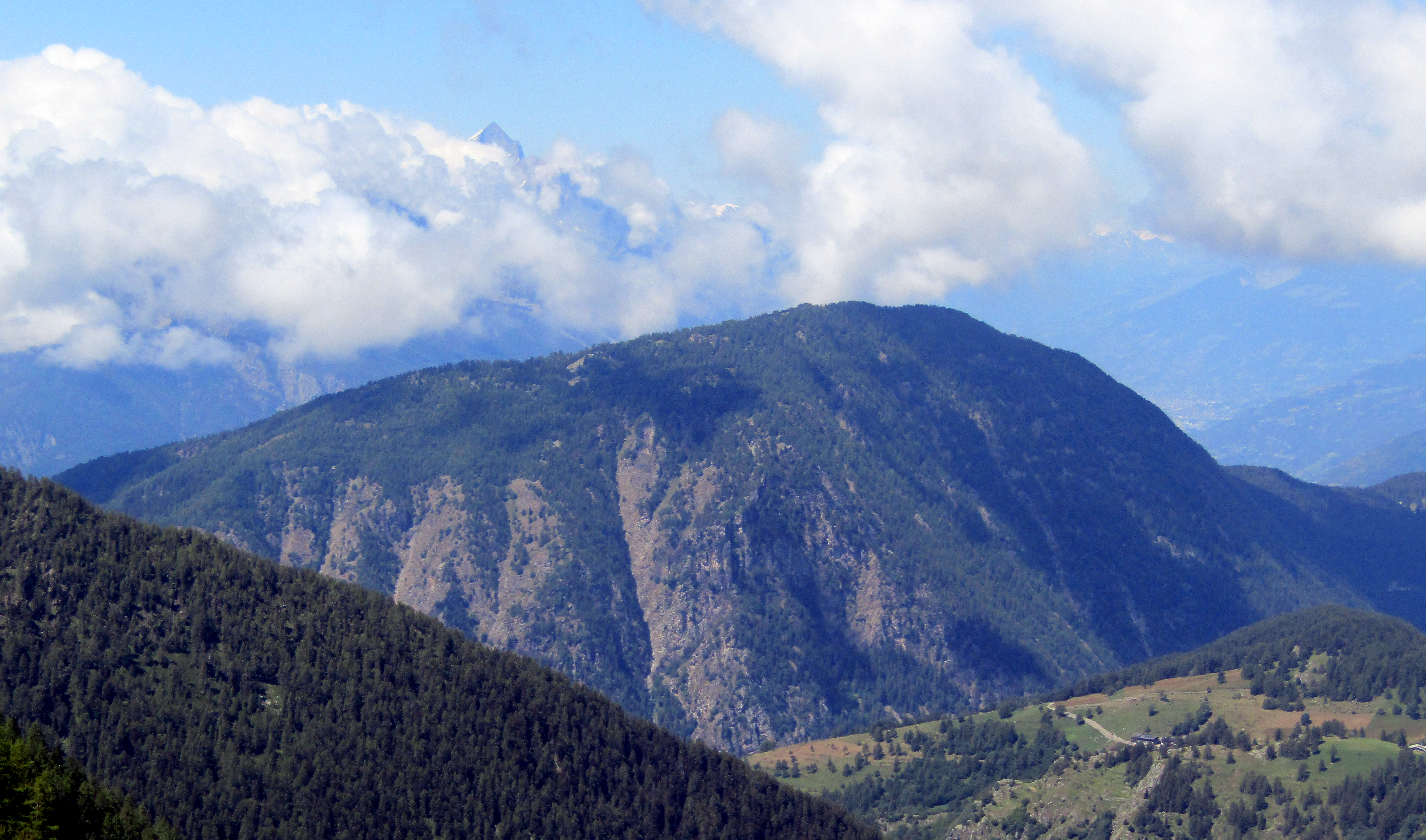 Testa di Comagna from Colle Ranzola (Pennine Alps, Italy)